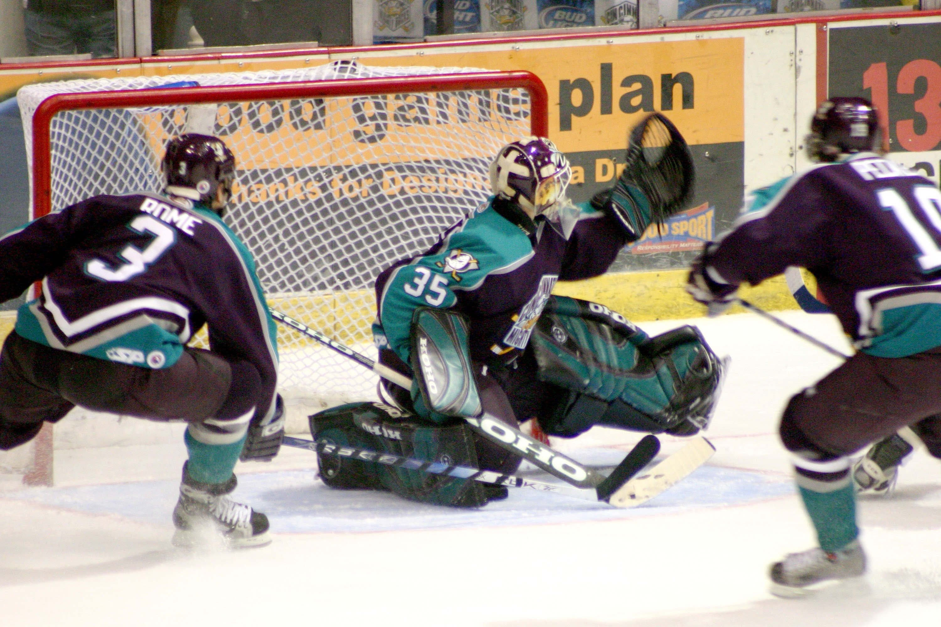 The puck bulges the top of the net for a goal as the goaltender was unable to block the shot